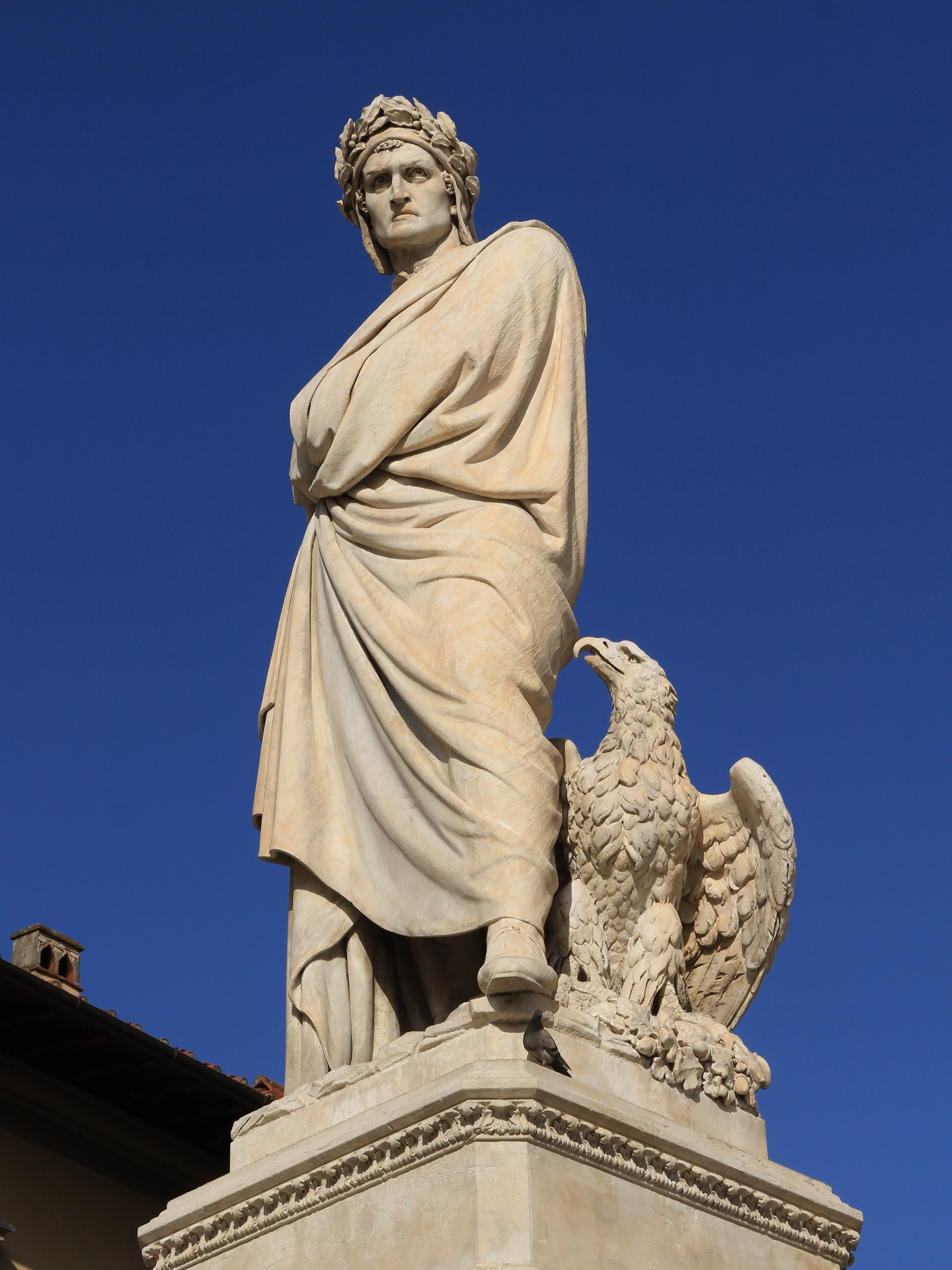 Dante Alighieri statue next to Santa Croce church, Florence (Italy), 1865, Enrico Pazzi